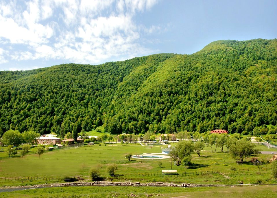 Zepyur camp, Pyunik village, Kotayk Province, Armenia.